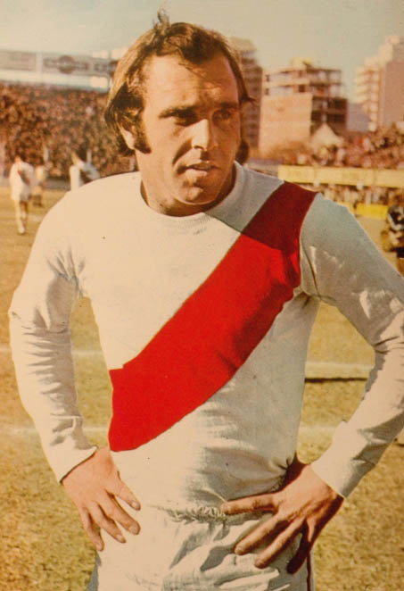 Argentine footballer Daniel Onega when playing for River Plate.